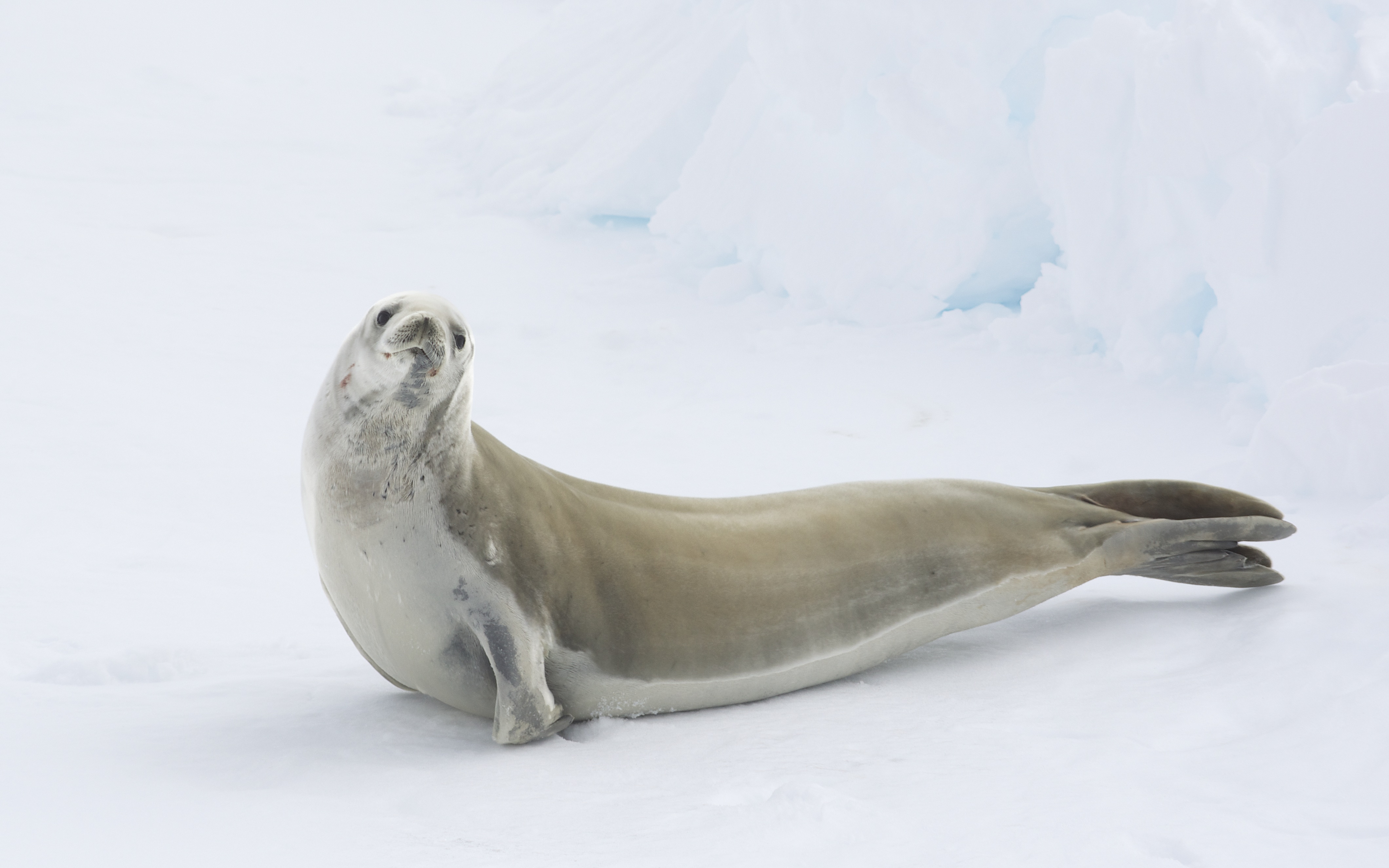 Crabeater seal on the sea ice in Antarctica